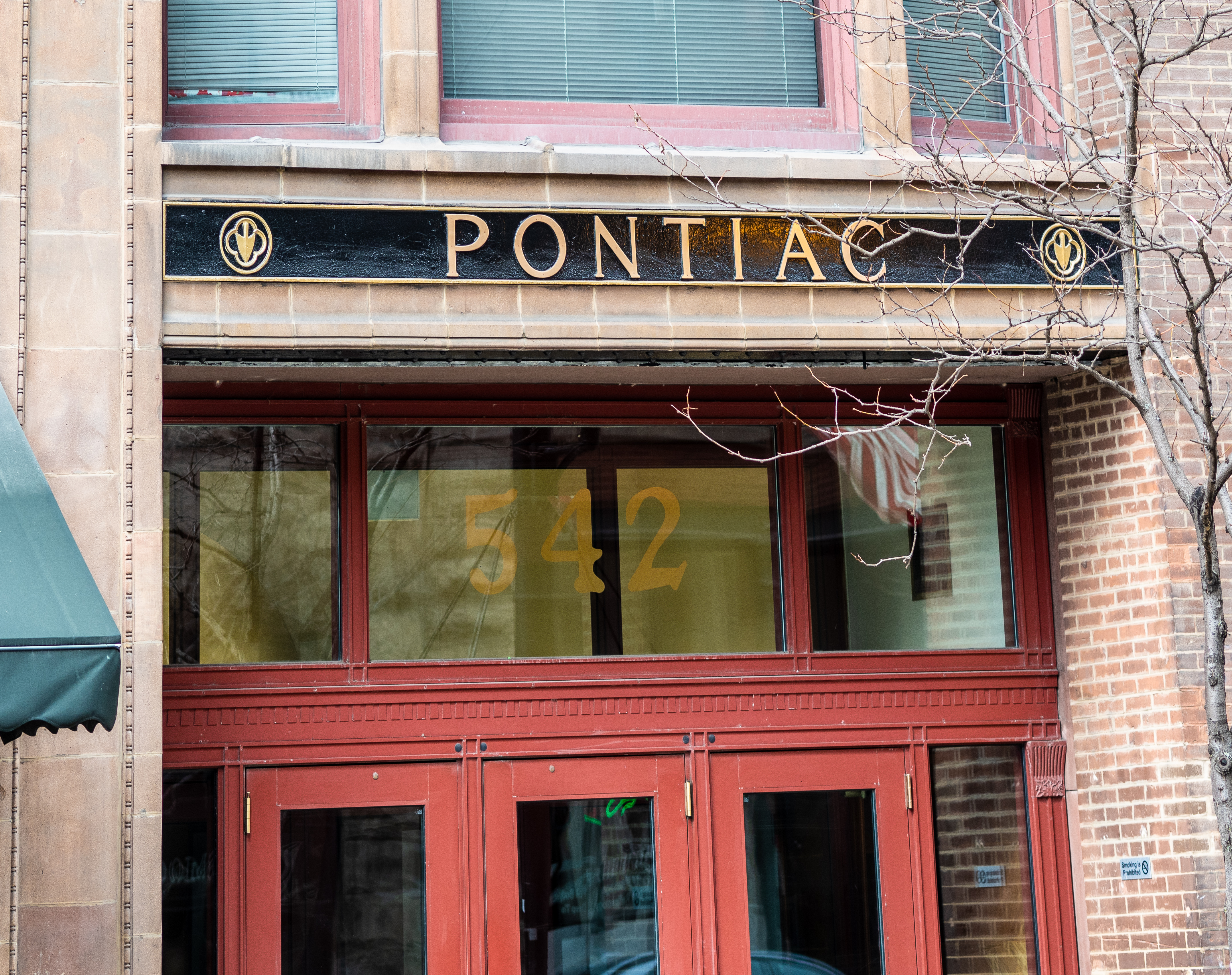 Pontiac Building, Chicago, IL, USA, main entrance